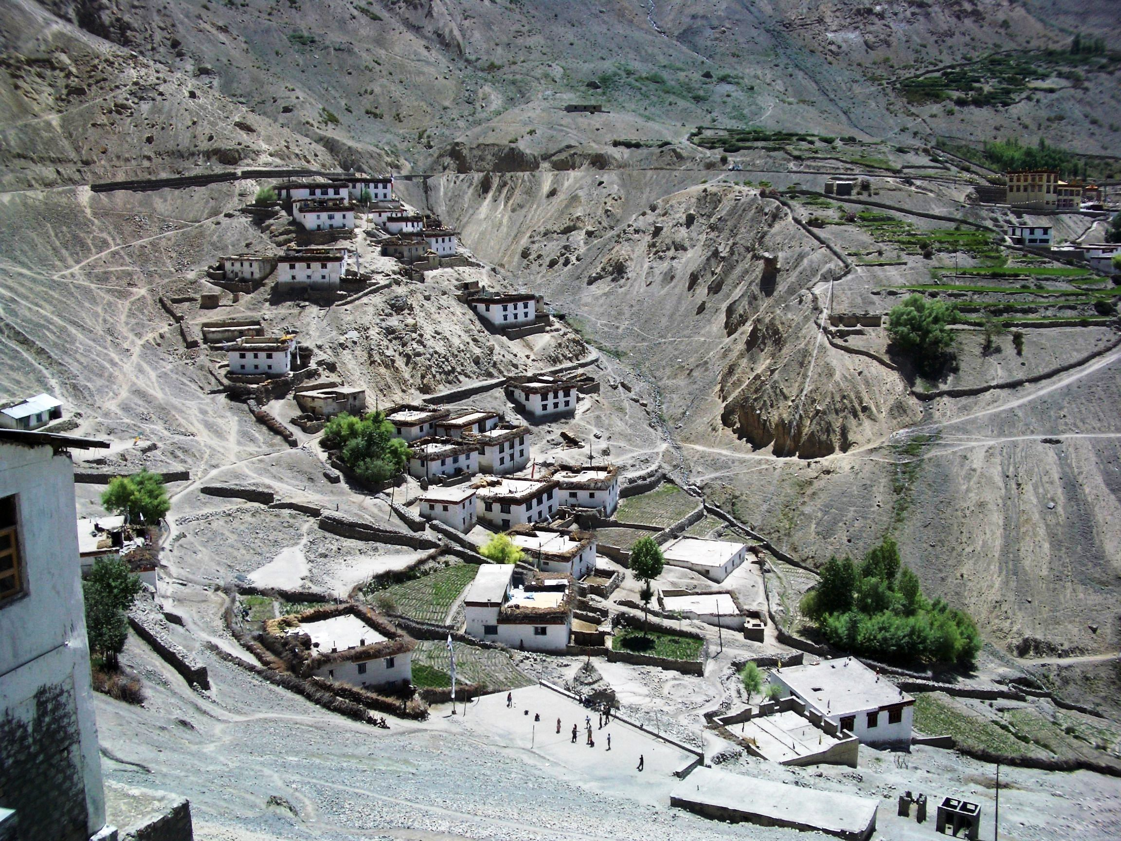 I took this photo on my trip to Spiti in 2004.